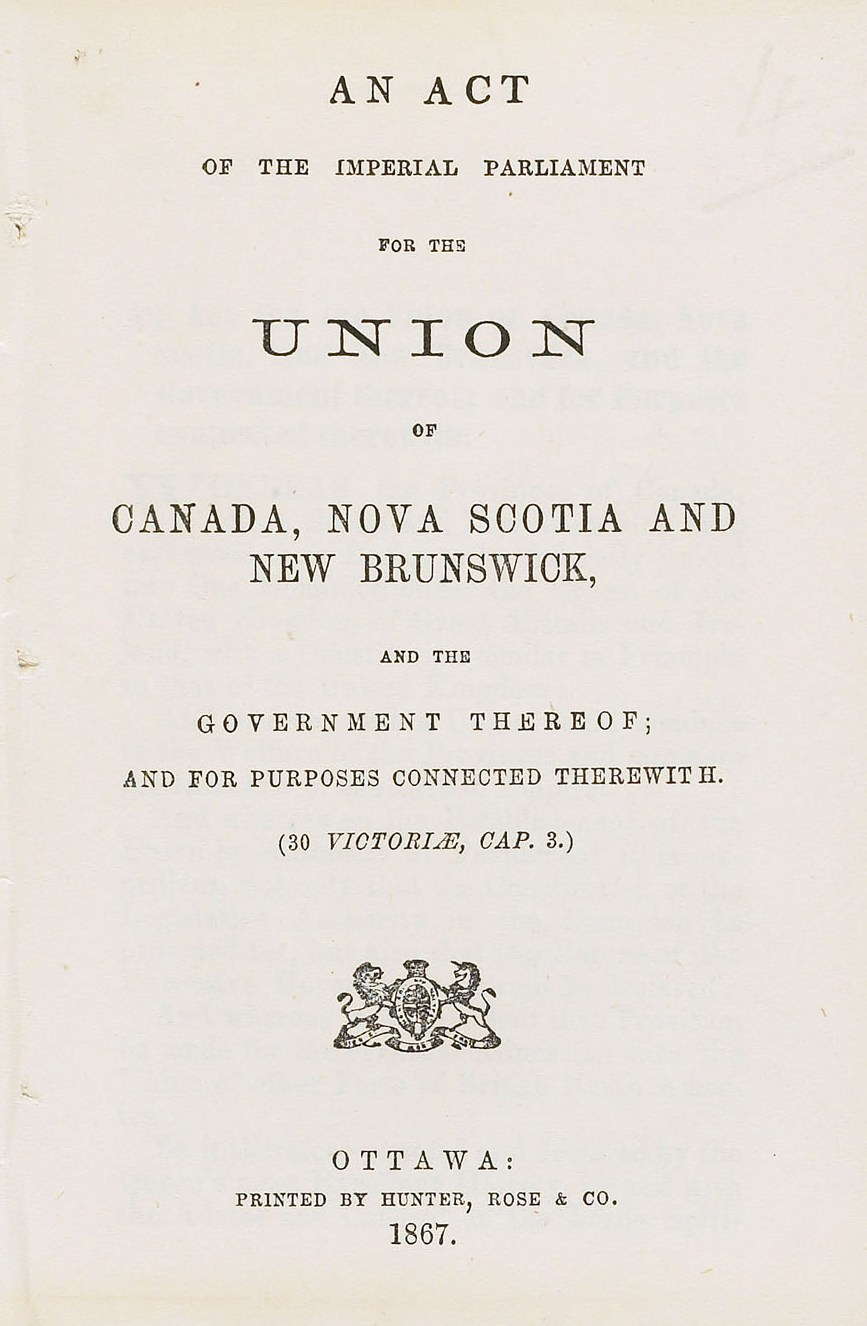 "An Act of the Imperial Parliament for the Union of Canada, Nova Scotia and New Brunswick, and the Government Thereof; and for Purposes Connected Therewith." Front page of a copy of the British North America Act, 1867 published in Ottawa, Canada. Enacted by the British Parliament, the statute is now known as The Constitution Act, 1867 (known informally as the BNA Act, and still known by its original name in United Kingdom records). A major part of Canada's Constitution, the Act established the Dominion of Canada by fusing the North American British colonies of the Province of Canada (the two subdivisions of the Province of Canada, Canada West and Canada East, were renamed Ontario and Quebec), the Province of New Brunswick, and Nova Scotia. The Act also defines much of the operation of government in Canada, including its federal structure (including the division of powers between the provinces and the federal government), the House of Commons, the Senate, the justice system, and the taxation system.